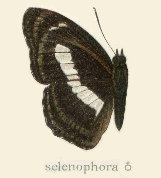 Neptis selenophora